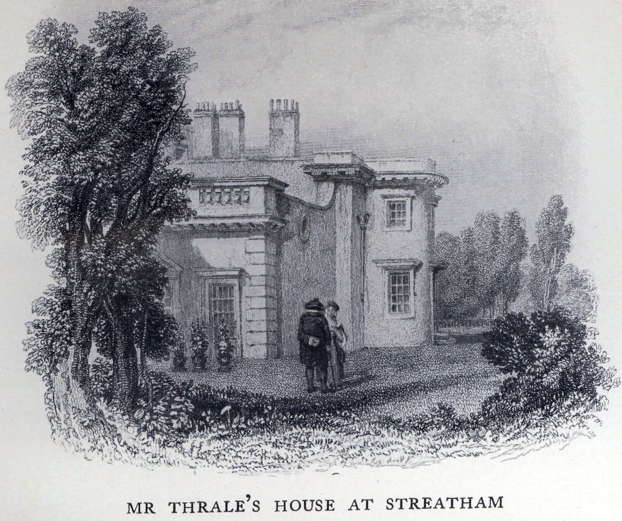 Mr Thrale's House at Streatham. 19th C. engraving